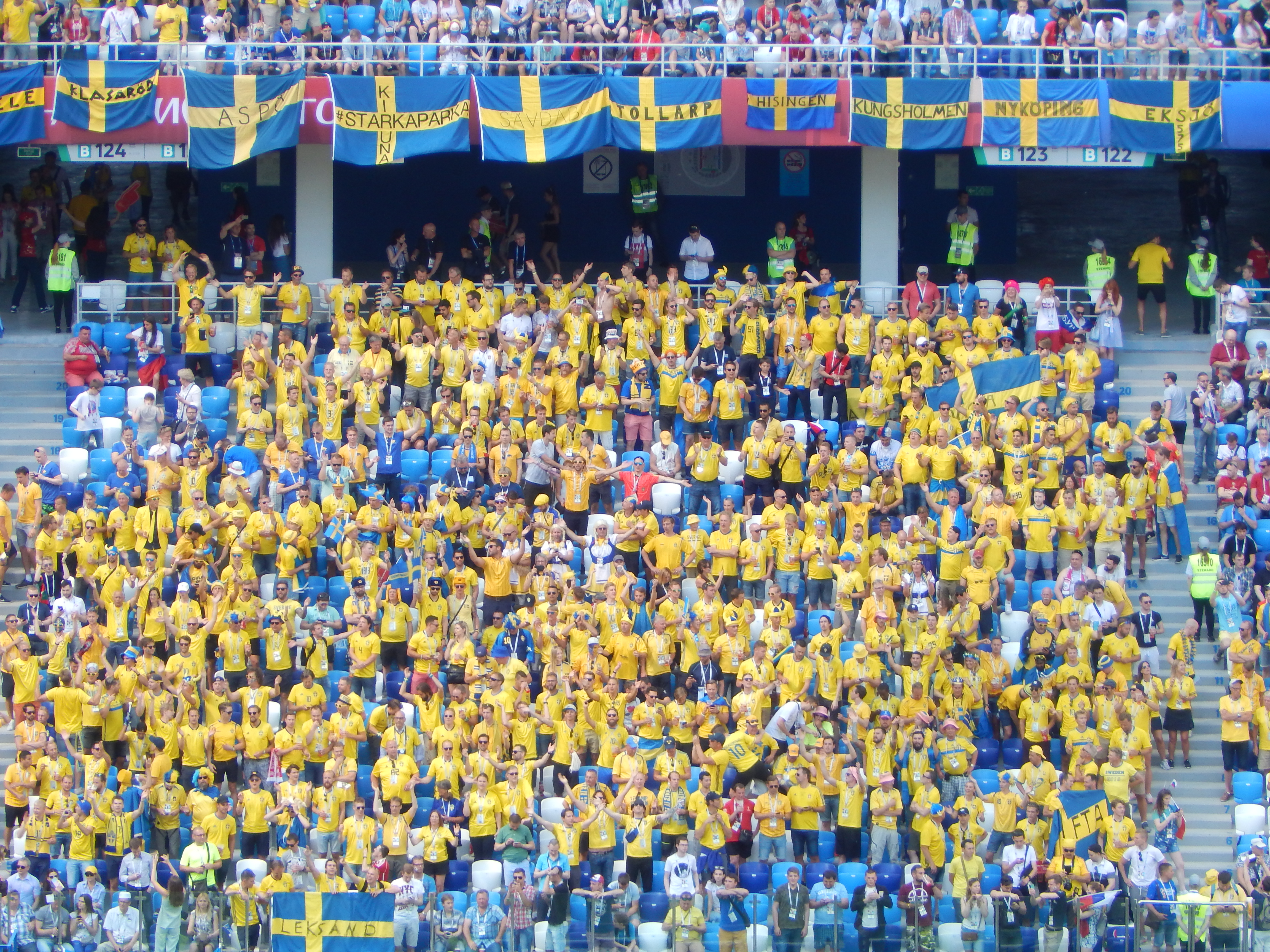 2018 FIFA World Cup - Group F - KOR v SWE